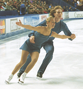 Valerie Saurette and Jean-Sebastien Fecteau compete their long program at the 2002 Canadian Championships in Hamilton, Ontario. Photo taken by me, Vesperholly 08:22, 17 July 2006 (UTC)